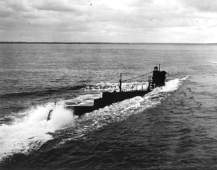 USS O-2 (SS-63) diving, during training operations out of New London, Connecticut, 26 November 1943. Original caption: "Photo # 80-G-43874 USS O-2 diving during training operations, 26 November 1943" — removed caption